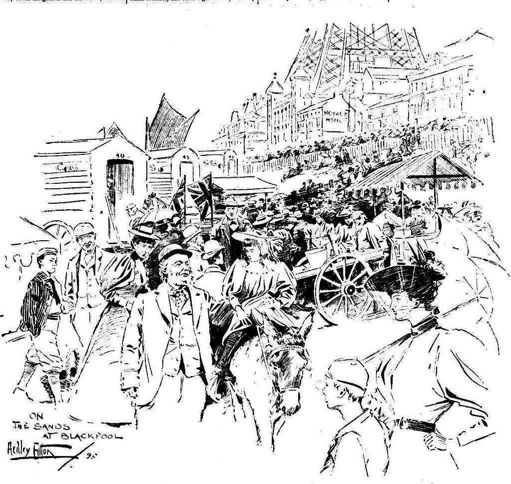 Sketch of Blackpool Beach 1895